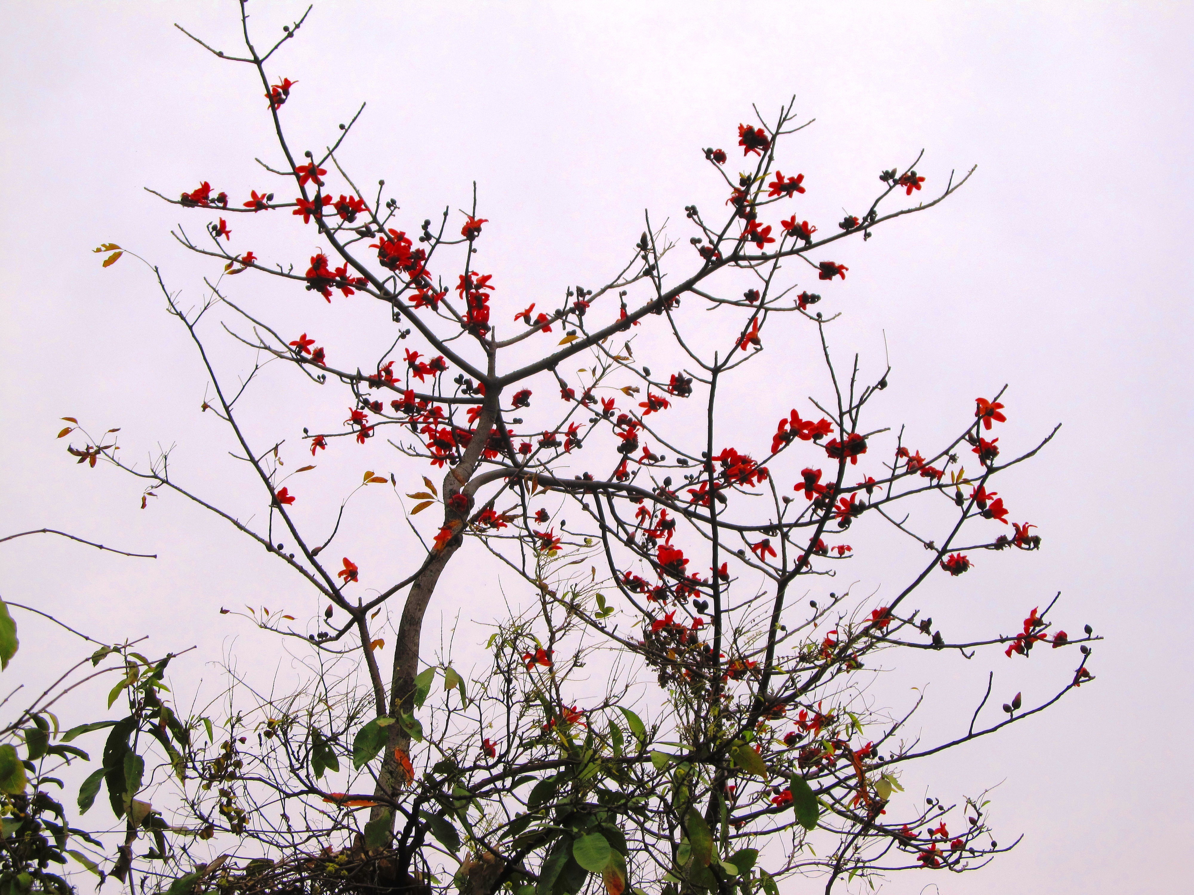 Mahua flower in summer at Ayodhya Hills